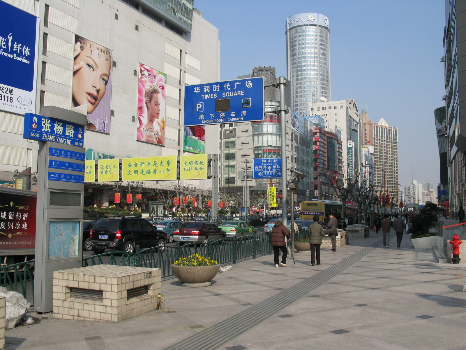 Zhangyang Road, South Pudong Road